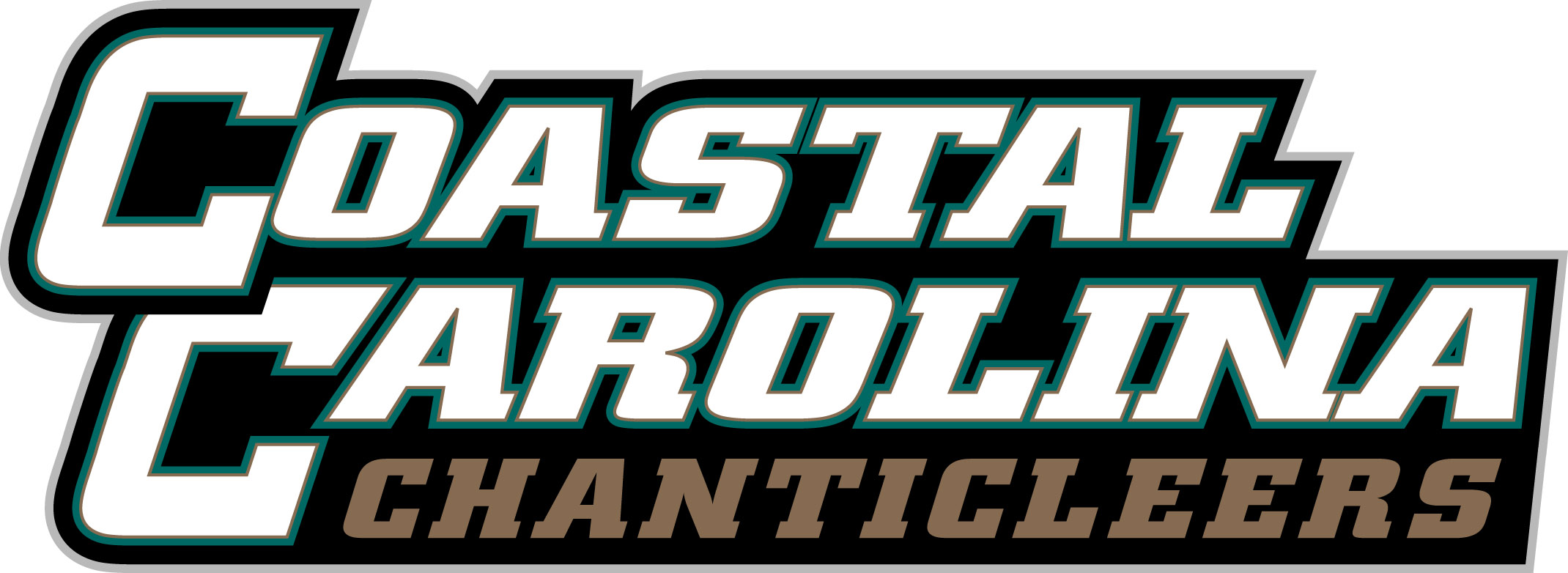 Coastalcarolina-wordonly.jpg